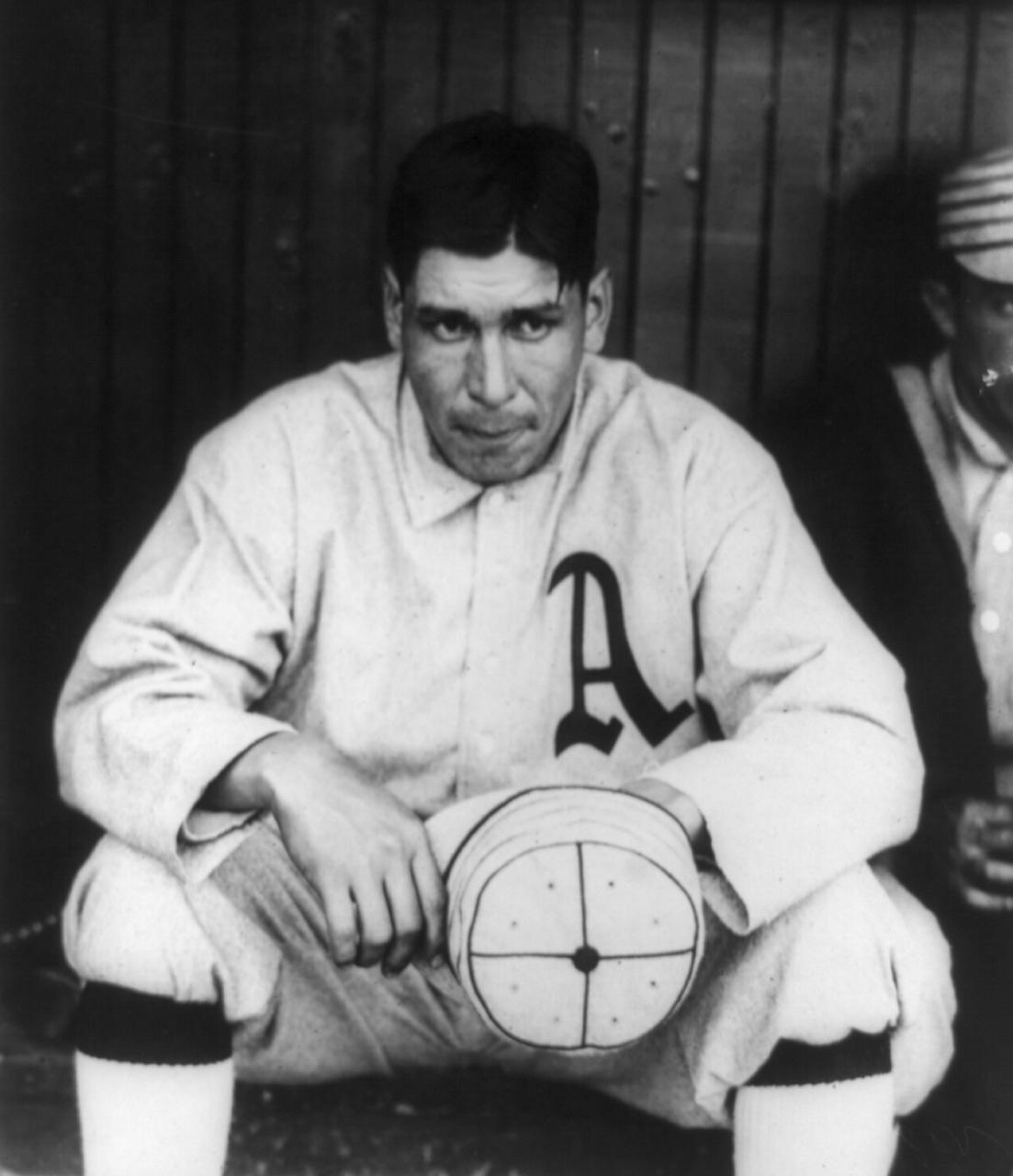 Charles Albert (Chief) Bender, of the Philadelphia Athletics baseball team, three-quarter length portrait